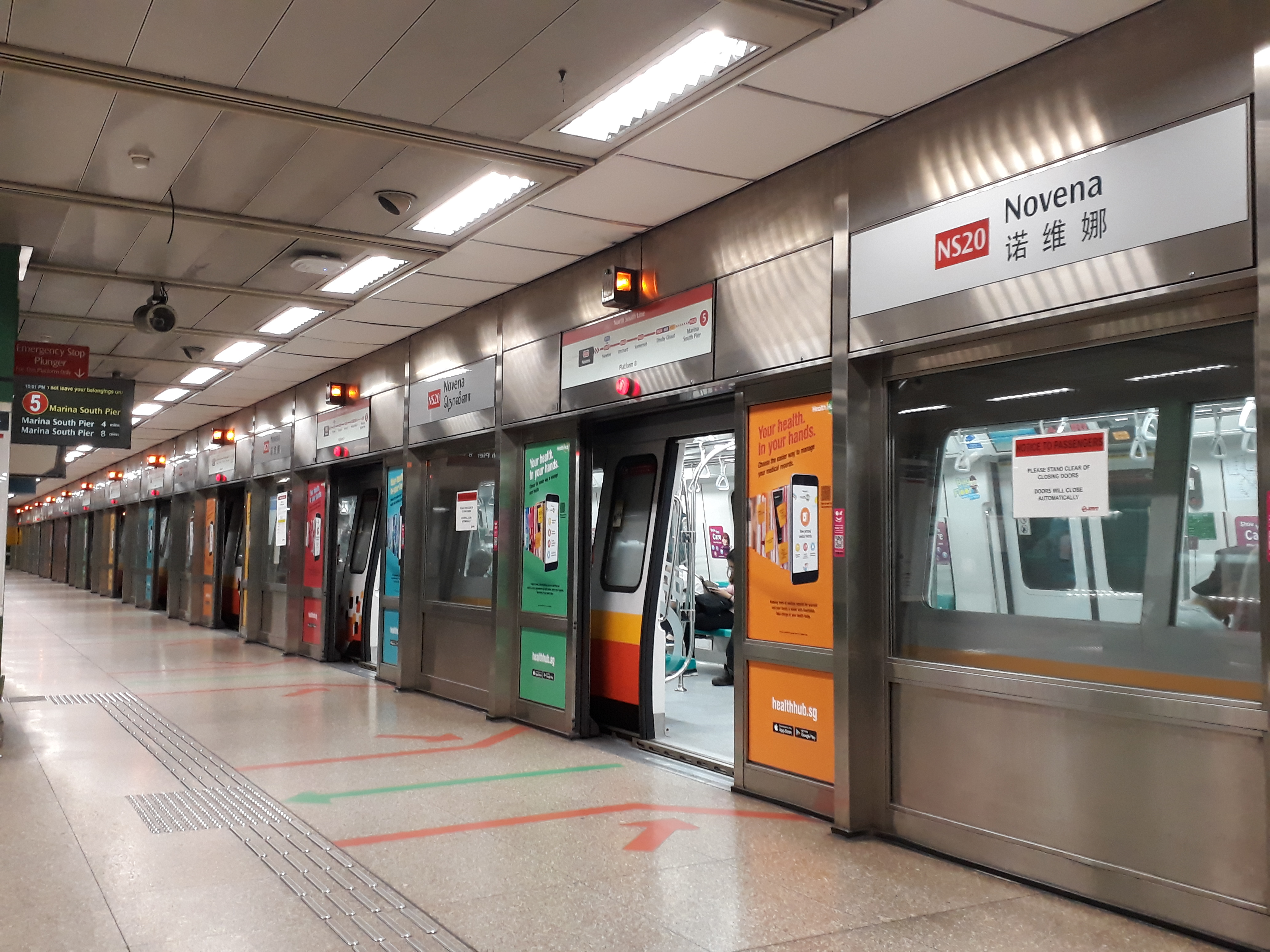 Platform B of Novena